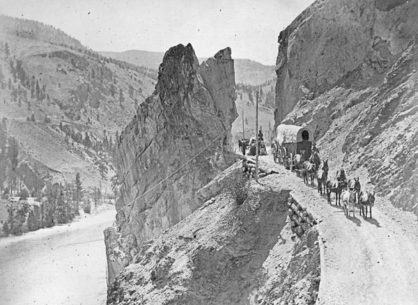 Freight wagons at Eight Mile Bluff, Thompson River, eight miles from Spences Bridge.